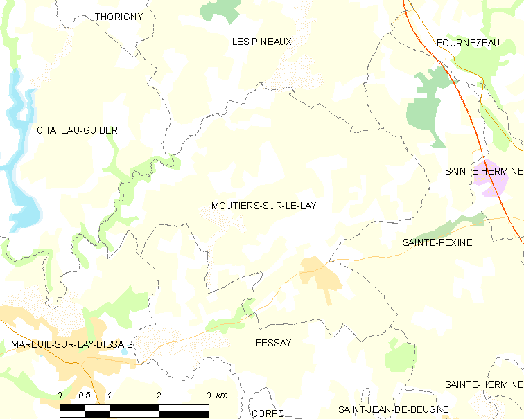 Map of French municipality Moutiers-sur-le-Lay